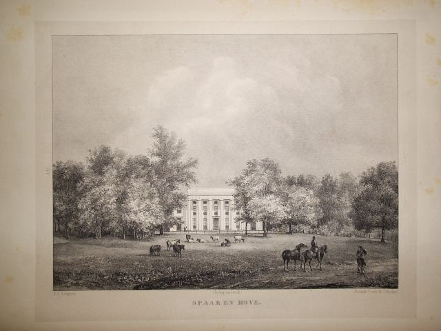 Image of Spaar en Hove in Schoten, Netherlands